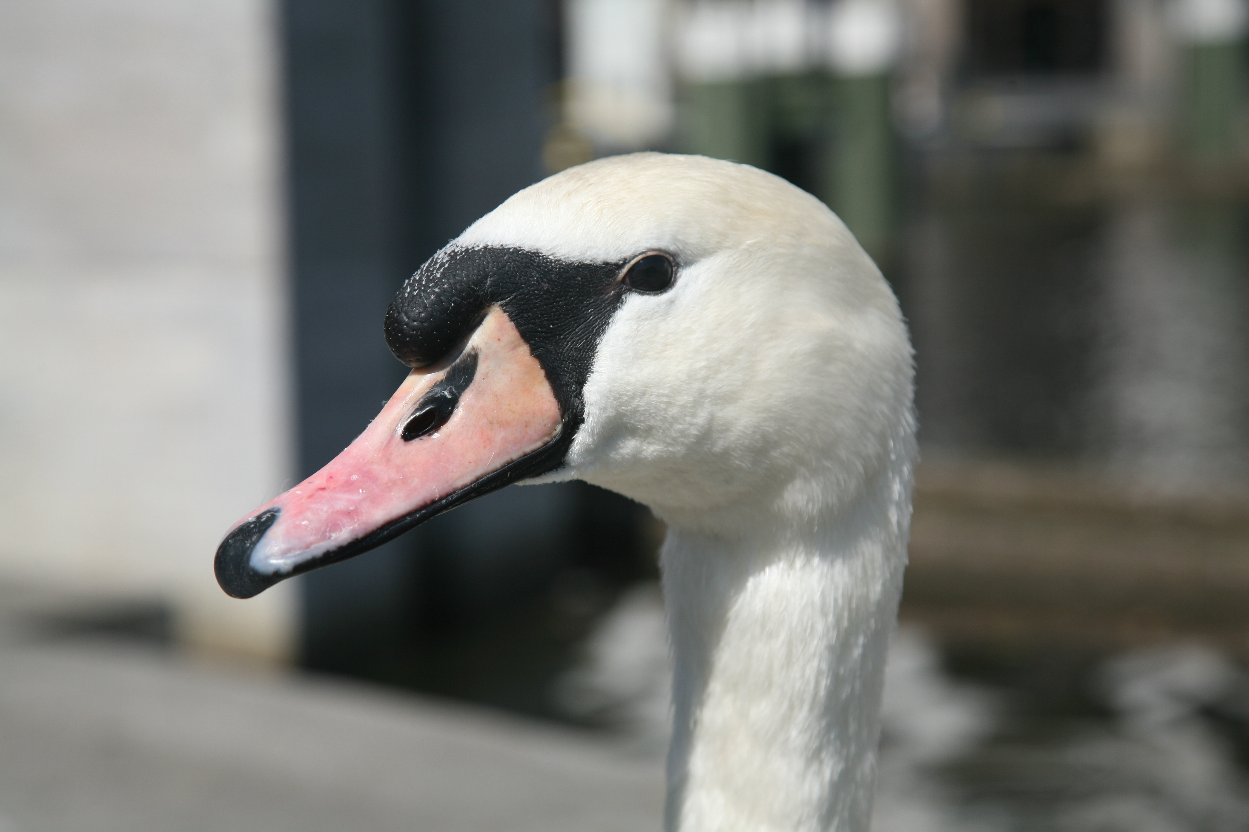 An adult Mute Swan, Hamburg, Germany.